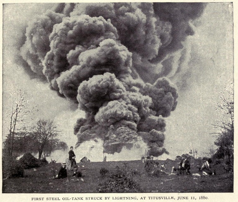 Illustration from the book Sketches in crude-oil; some accidents and incidents of the petroleum development in all parts of the globe, ... 3rd Edition. by McLaurin